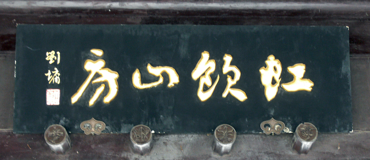 Liu Yong(1719-1805) caligraphed inscription board 劉墉虹飲山房匾額